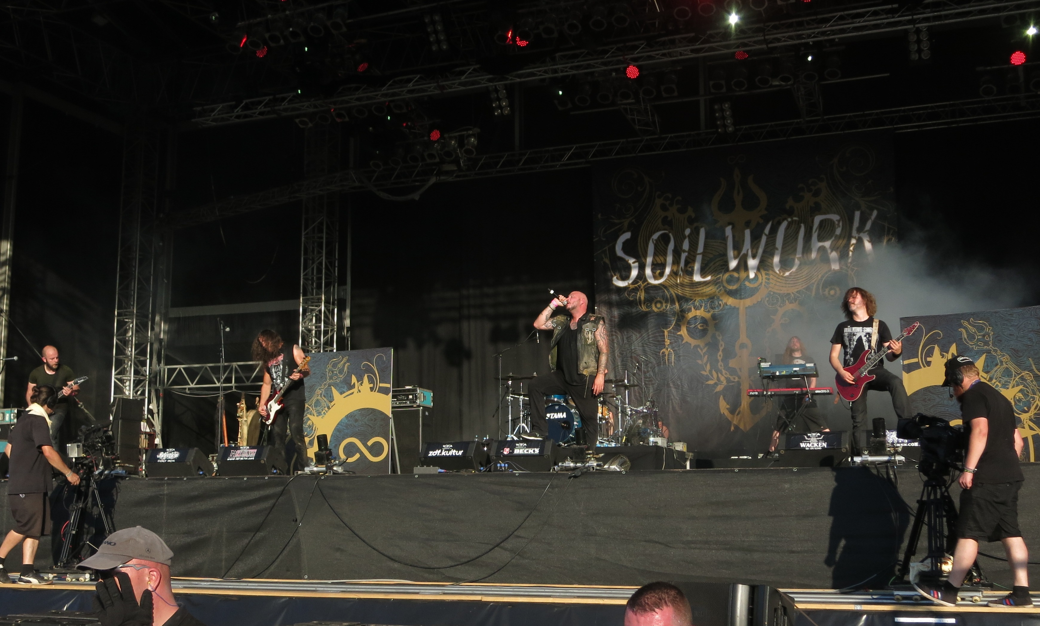 Soilwork at Wacken Open Air 2013